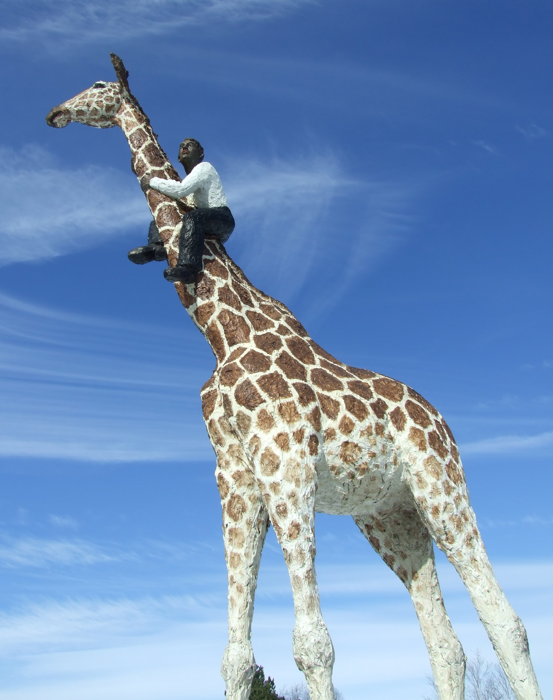 Man on Giraff; 2000; Stephan Balkenhol; Bronze painted Tierpark Hagenbeck, Hamburg